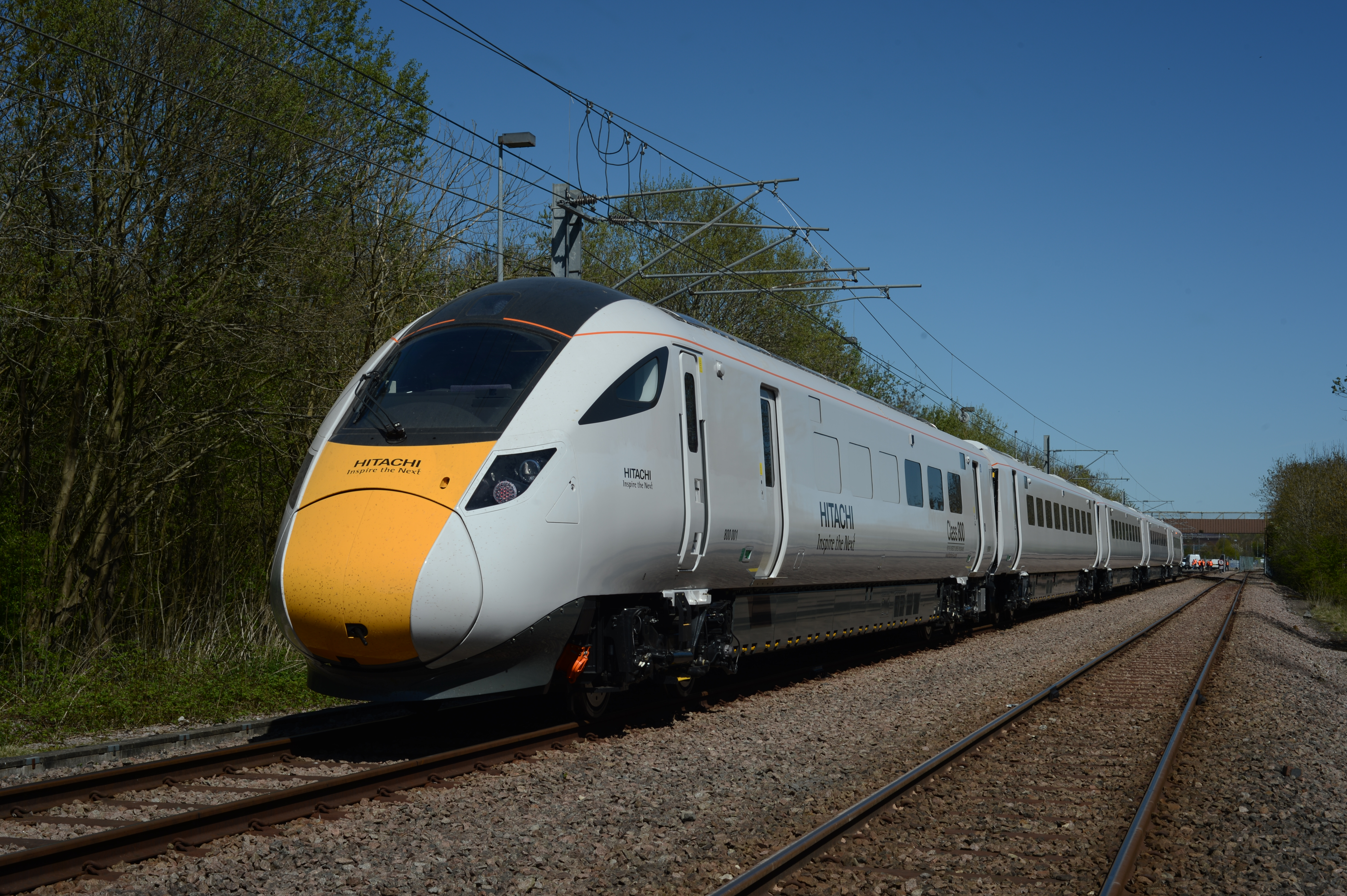 First pre-series Class 800 Hitachi InterCity Express Programme train undergoes dynamic testing